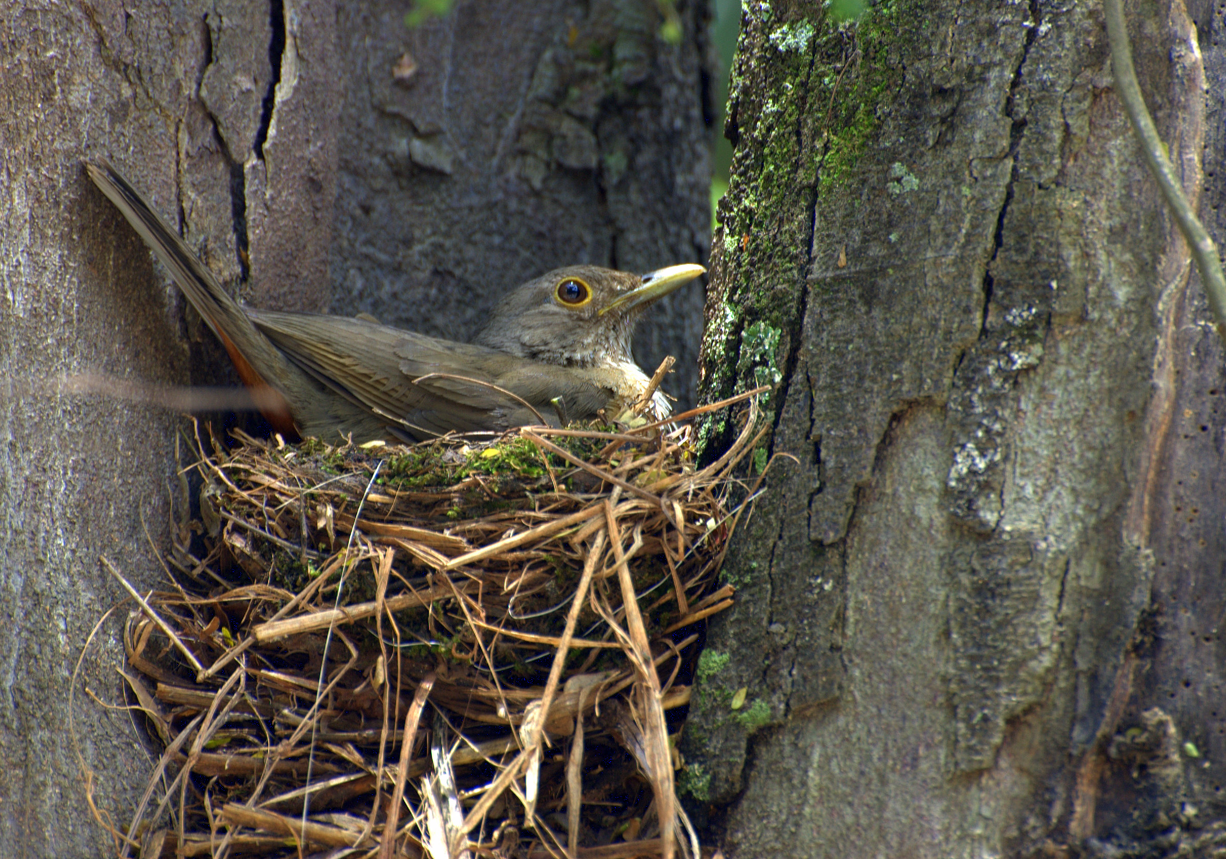 A Rufous-bellied Thrush (Turdus rufiventris)